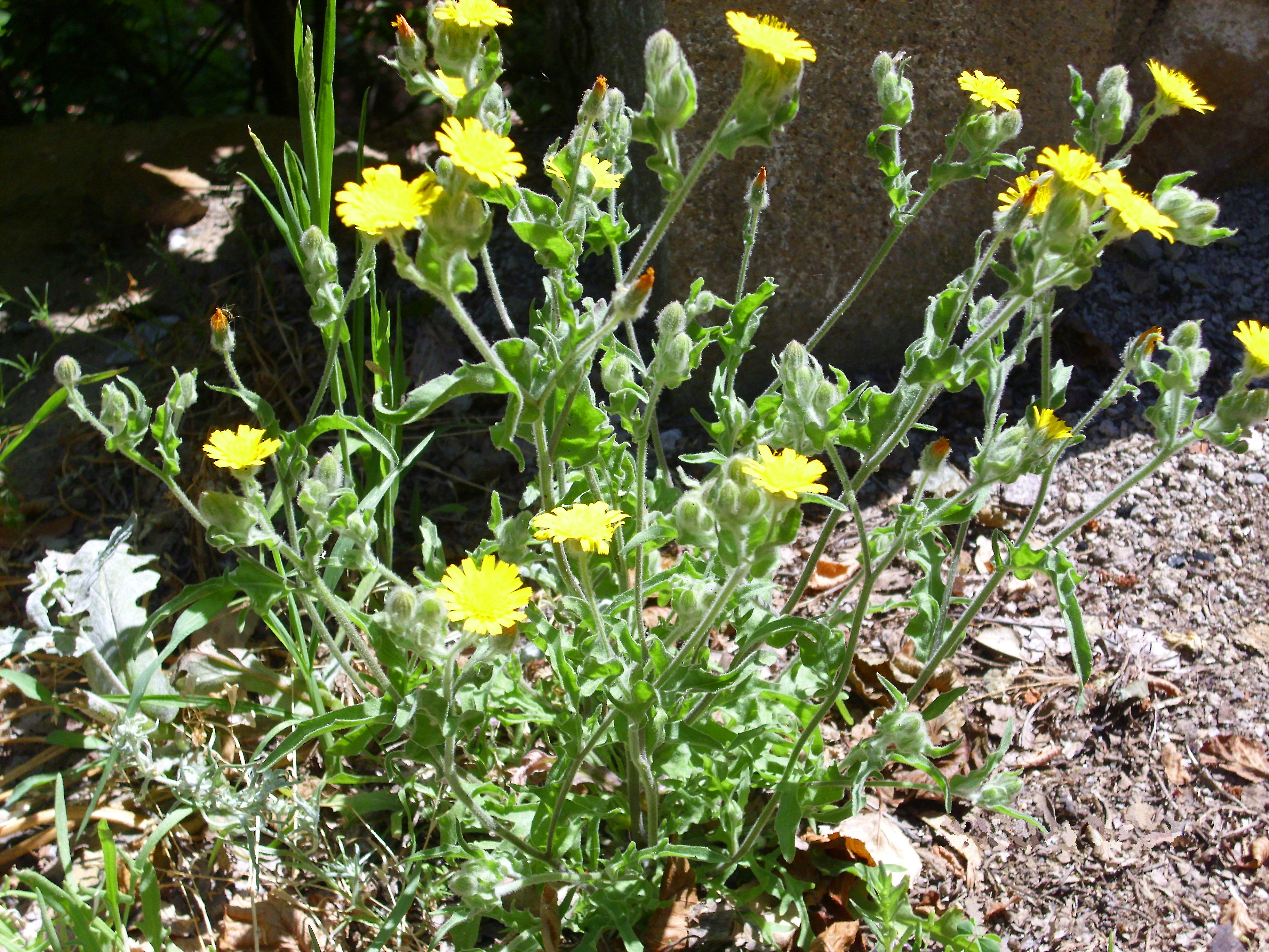 Andryala integrifolia habit, Sierra Madrona, Spain